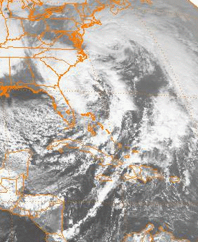 National Climatic Data Center GIBBS GOES-7 imagery